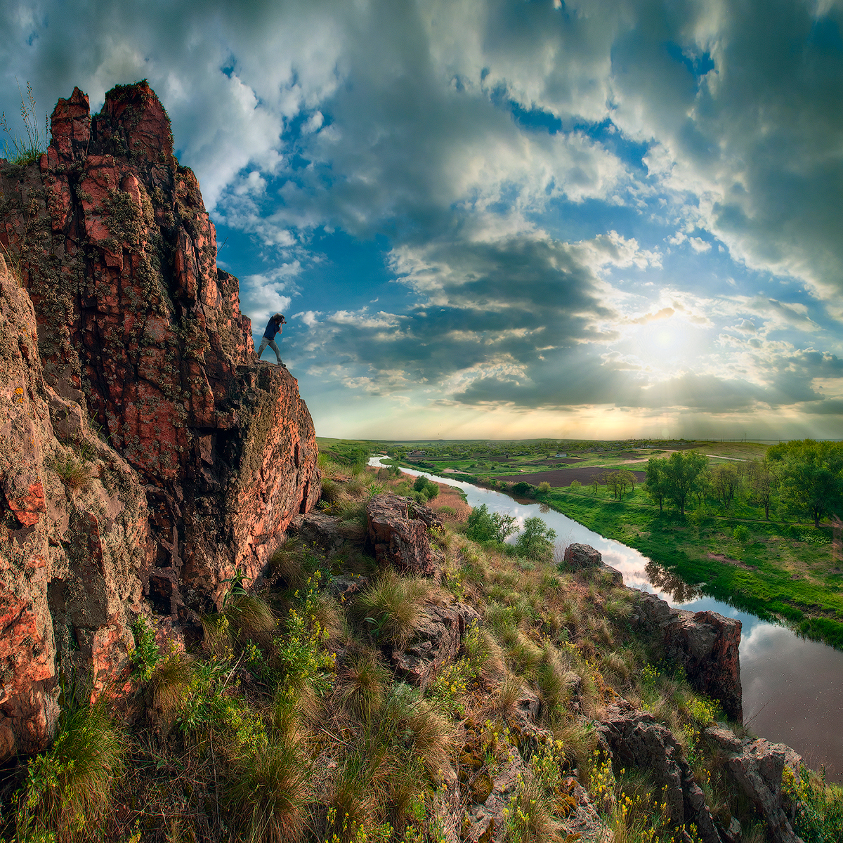 Kalmiussky Reserve, Telnamivskyi raion, the village of Stara Laspa